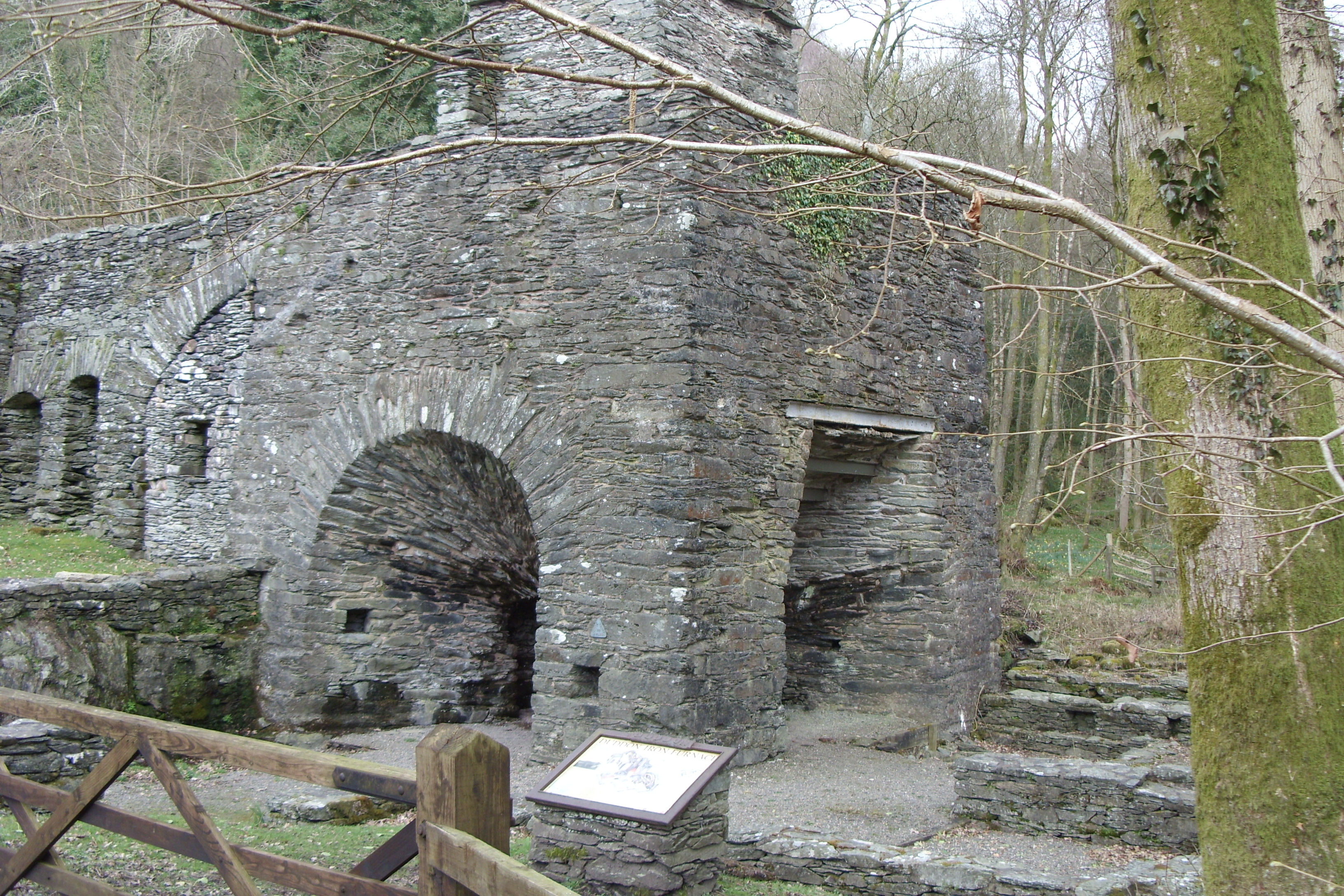 Duddon Furnace showing taphole entrance.